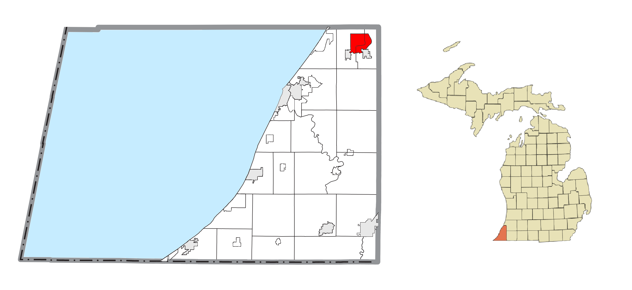 Paw Paw Lake, MI